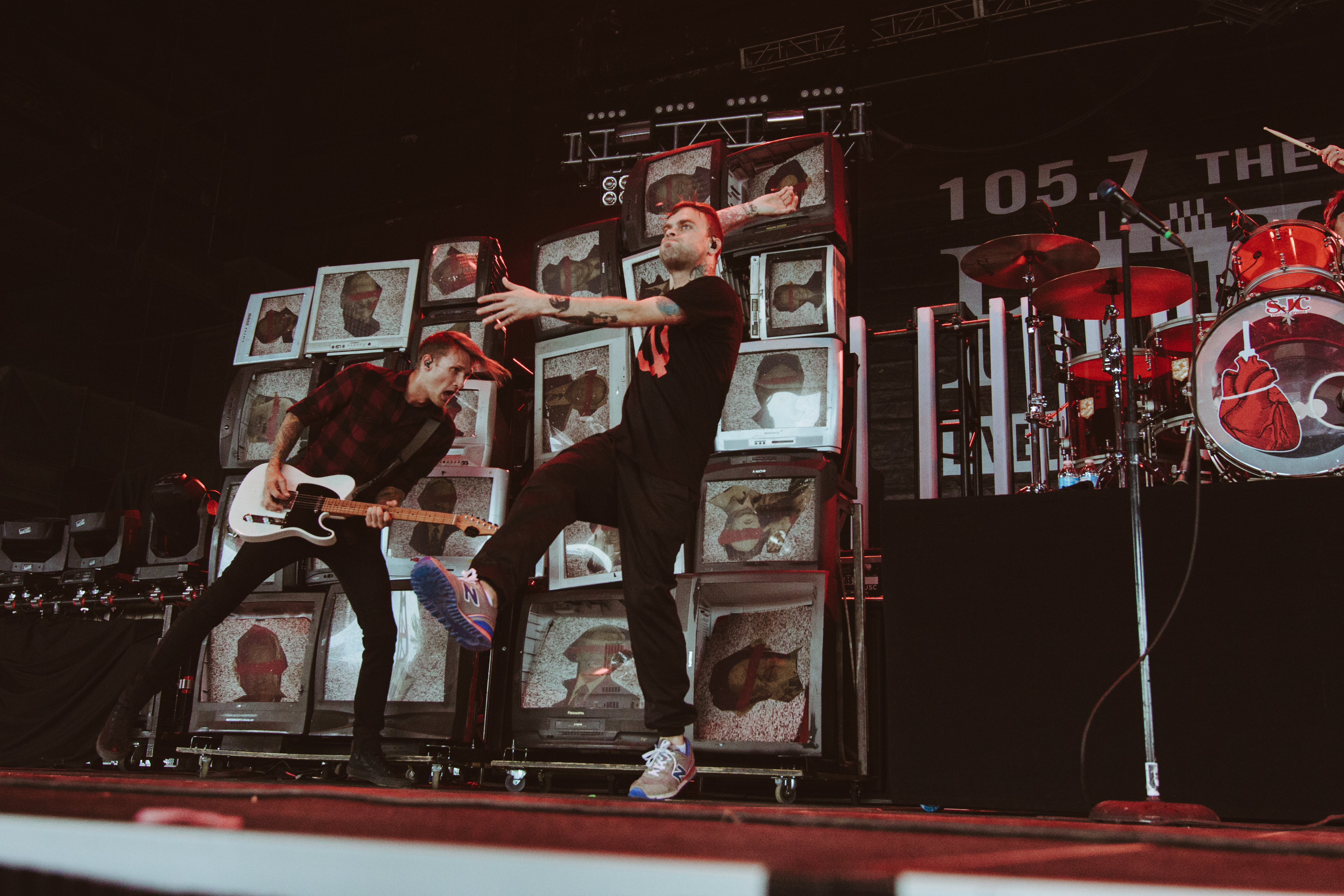 The_Used-3100